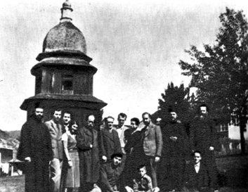 Durău, 1936. Toniza şi părintele Mătasă împreună cu „echipa”: Călin Alupi, Corneliu Baba, Serafim Bodnariuc, Mihai Cămăruţ, Al. Clavel, I. L. Cosmovici, Nicolae Popa, I. Ţolea ş. a.)